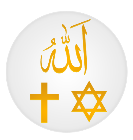 Religion Symbol icone